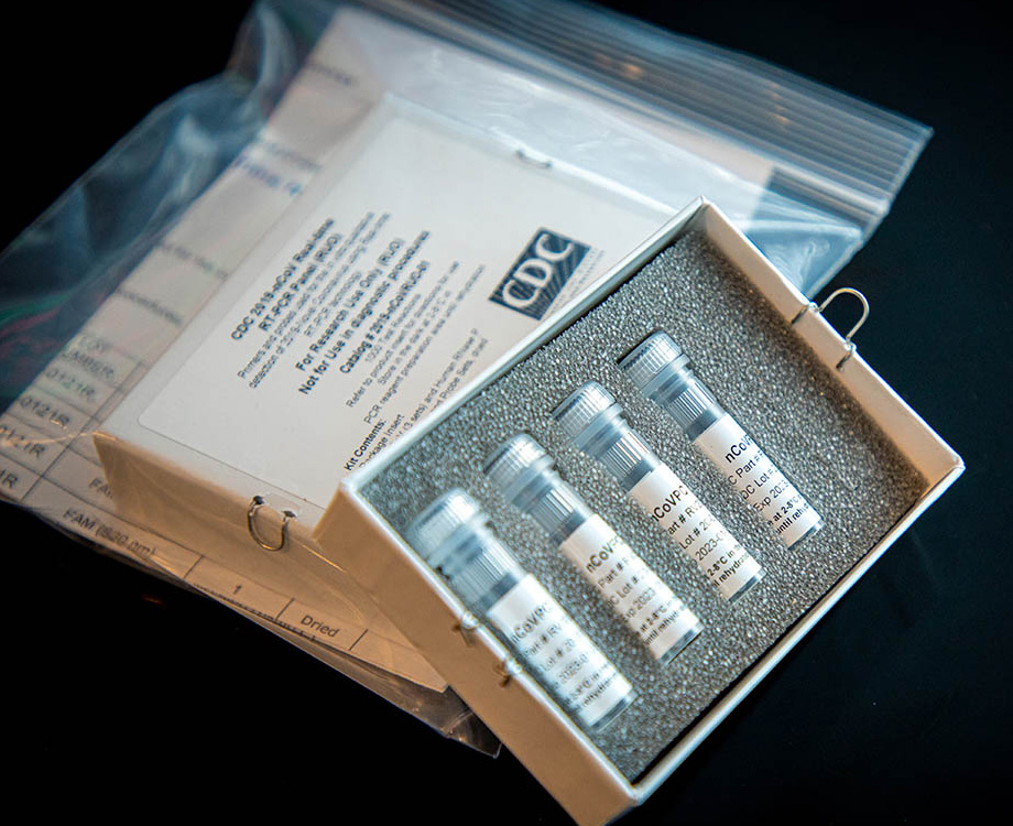 CDC 2019-Novel Coronavirus (2019-nCoV) Real-Time Reverse Transcriptase (RT)-PCR Diagnostic Panel